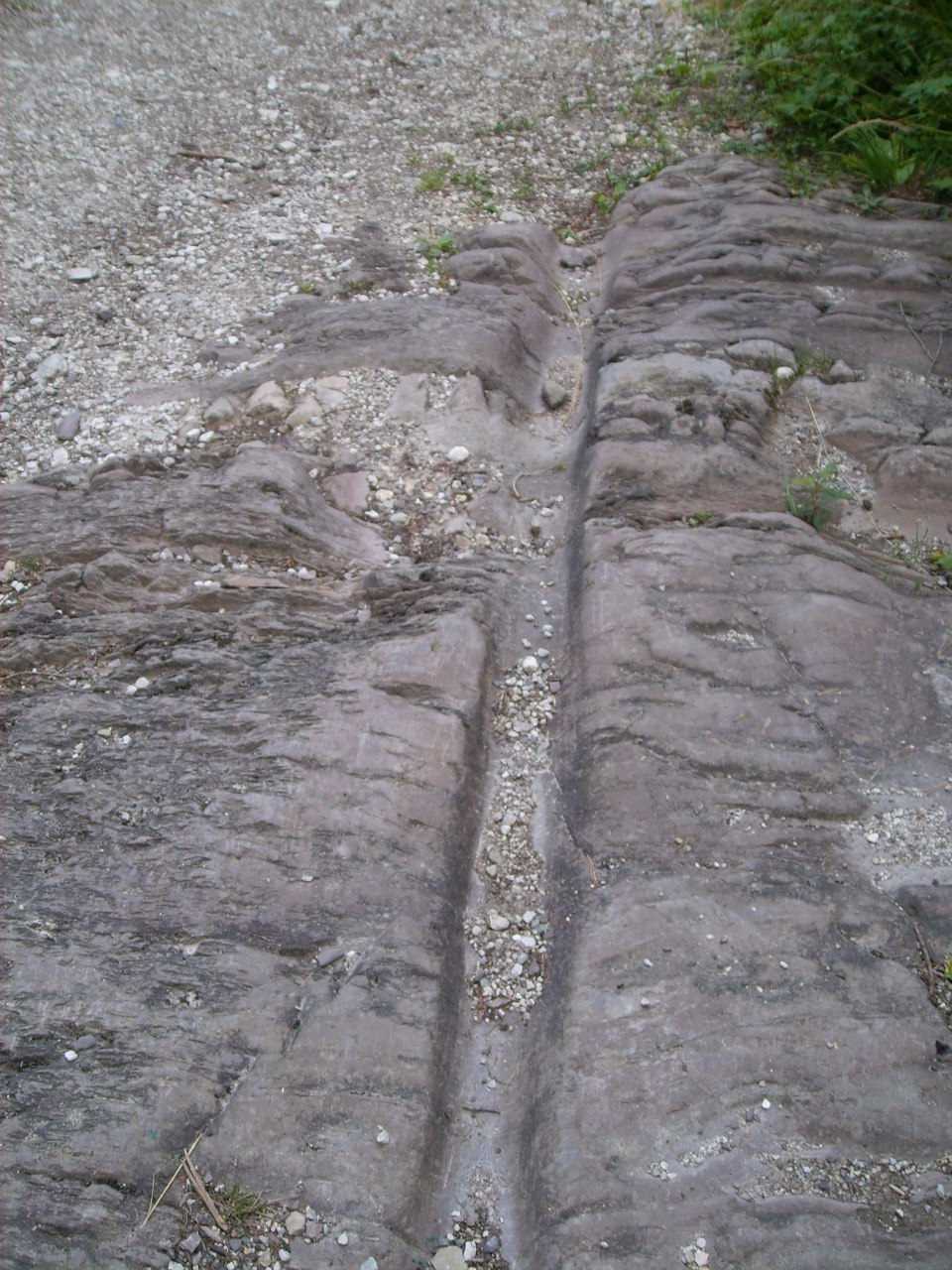 Cart track on the roman "Alemagna" path in Lozzo di Cadore, Italy